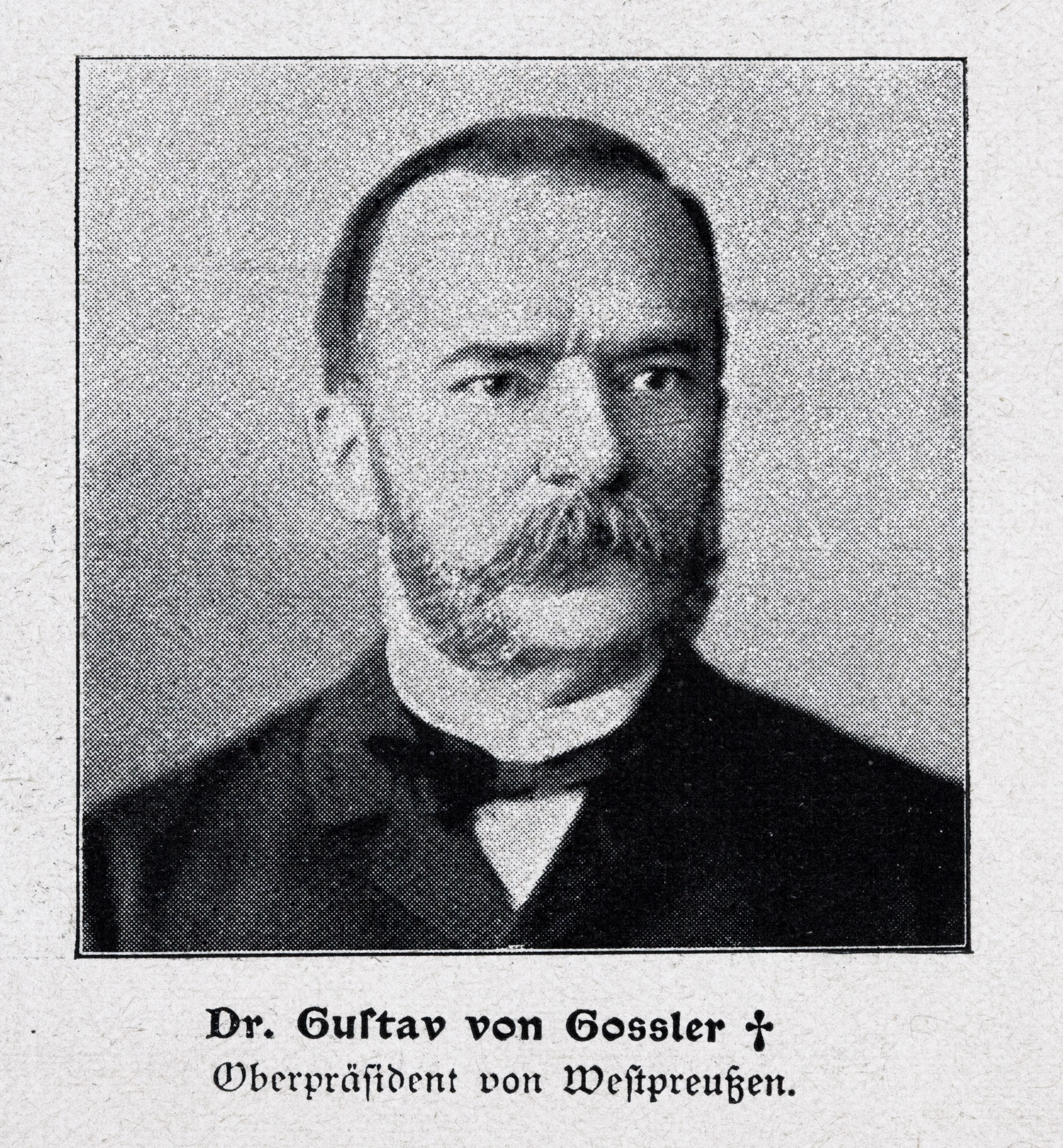 German politician, obituary published on page 1851 of the german boulevard magazine Die Woche